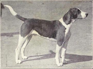 English Foxhound from 1915